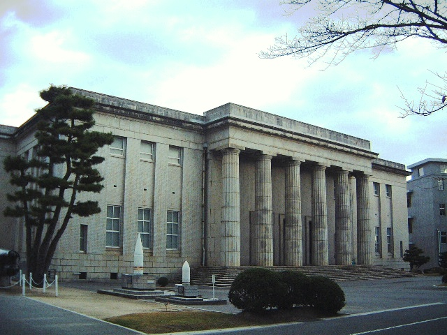 Former Japanese Naval Academy (Present Japan maritime self-defence force first maritime service school) Educational reference pavilion "kyouikusankoukan" Edajima city Japan